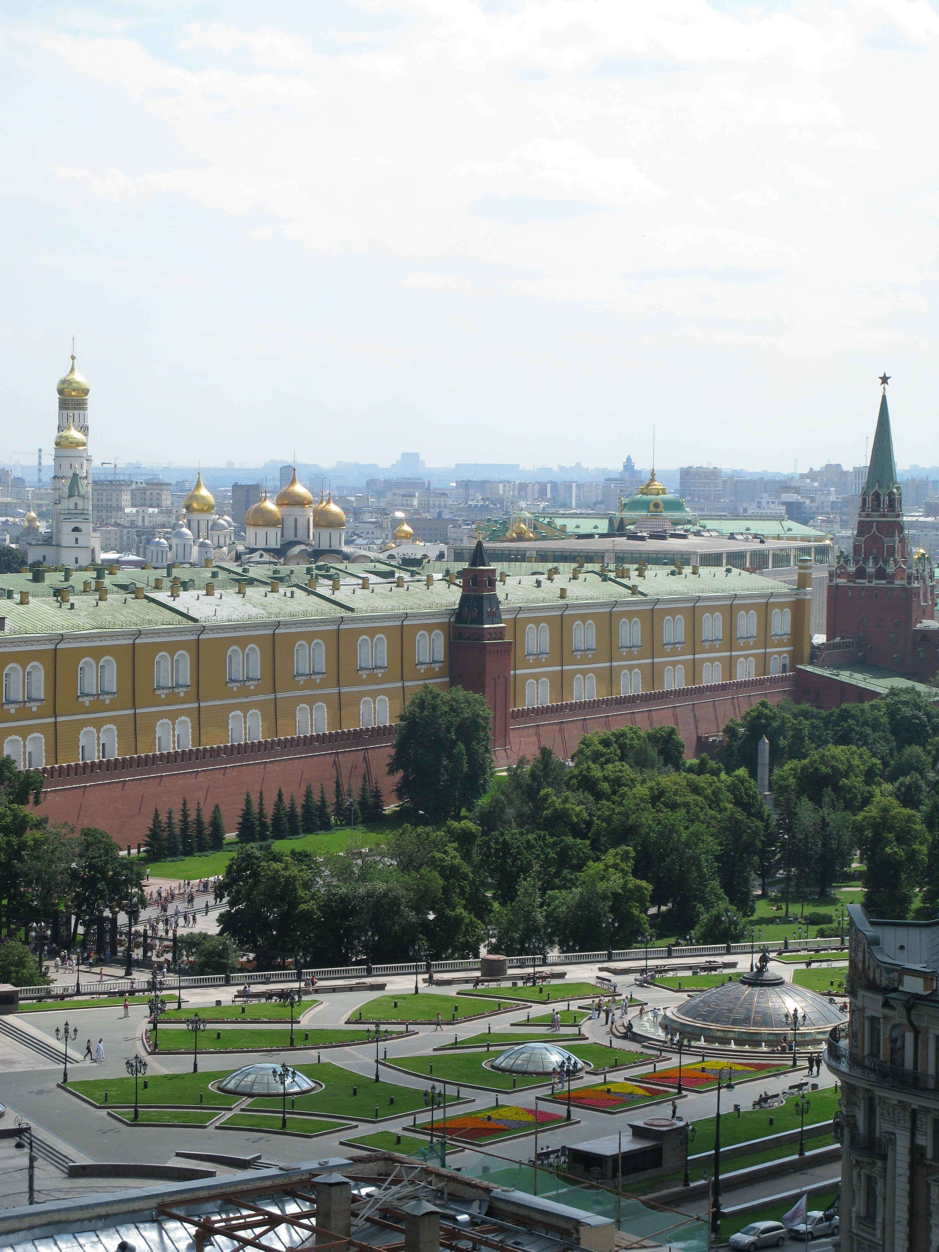 Manezhnaia square in Moscow, Russia